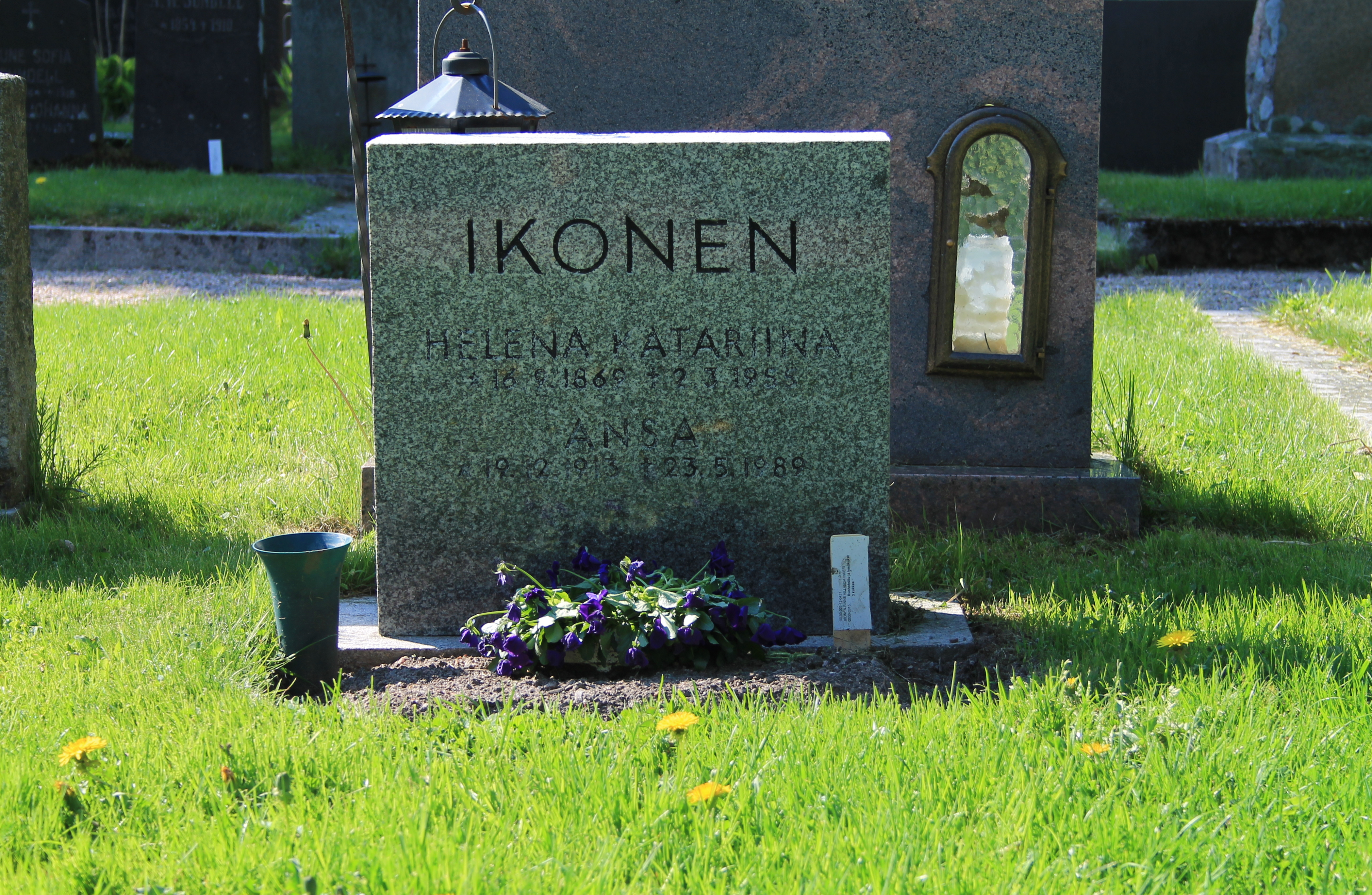 Gravestone of Ansa Ikonen at the Malmi Cemetery.